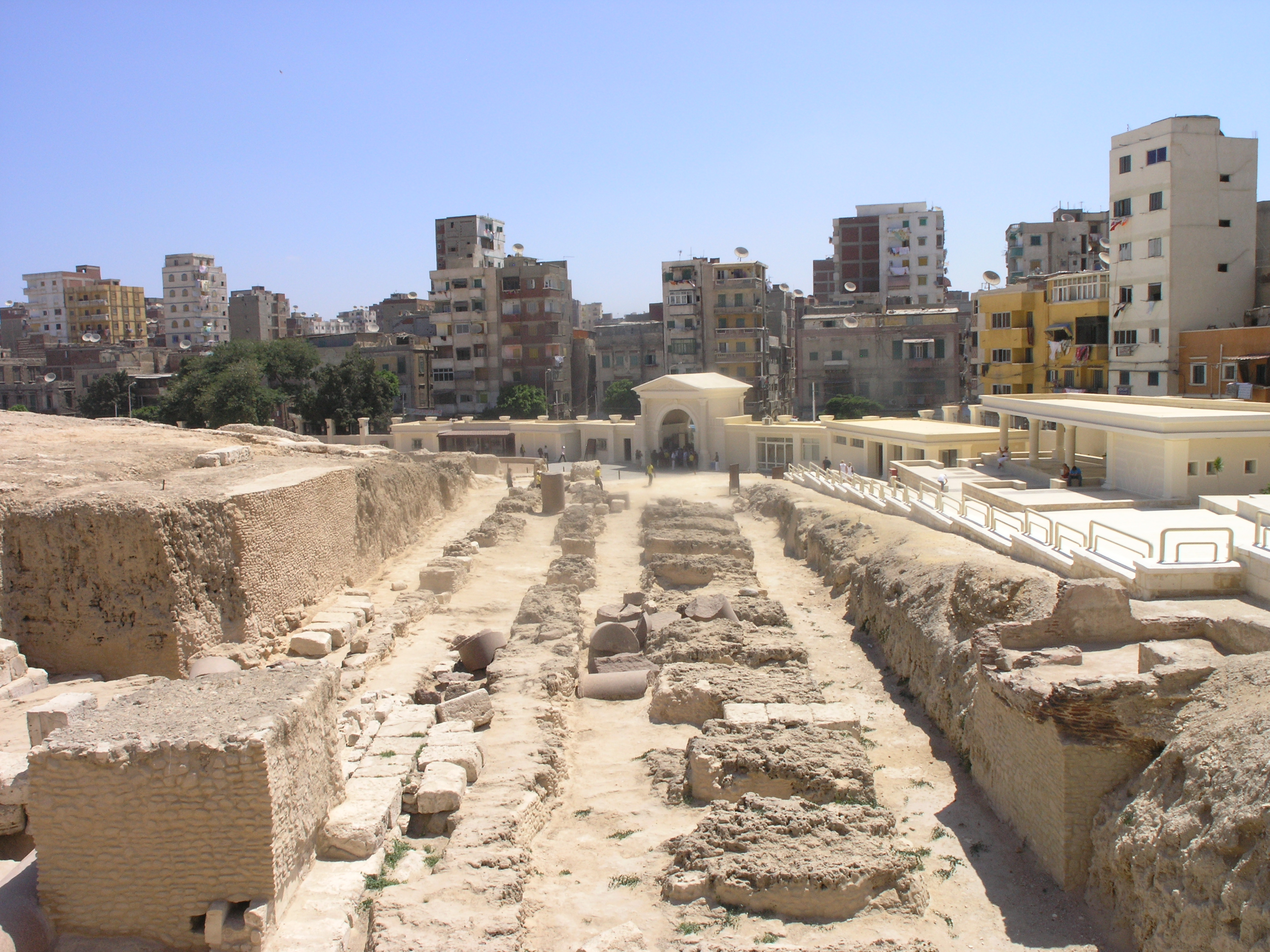 Alexandria - View of ruins of the Serapeum from Pompey's Pillar.